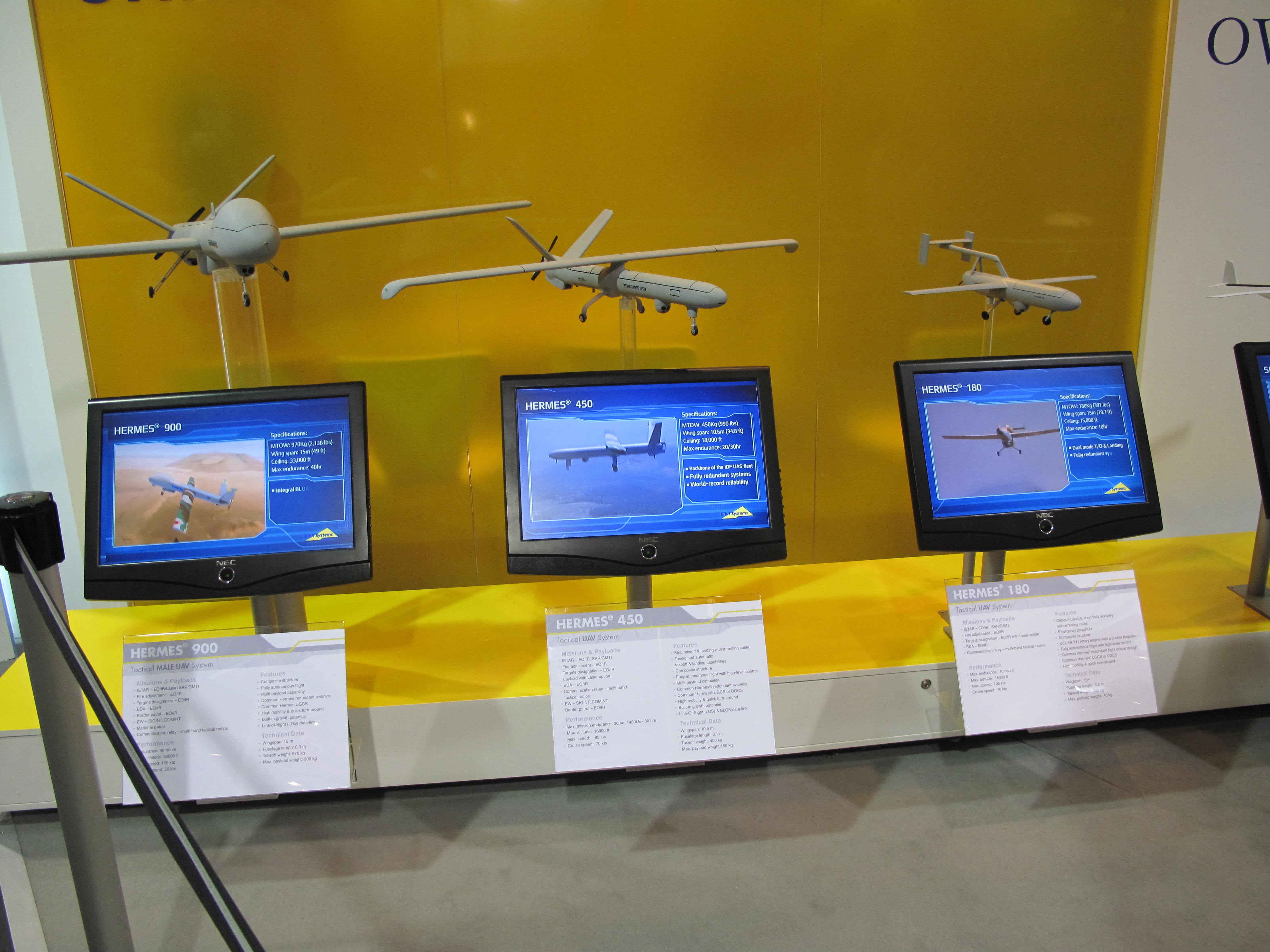 Models of the UCAV's Elbit Hermes 900, 450 and 180 at the Paris Air Show 2009